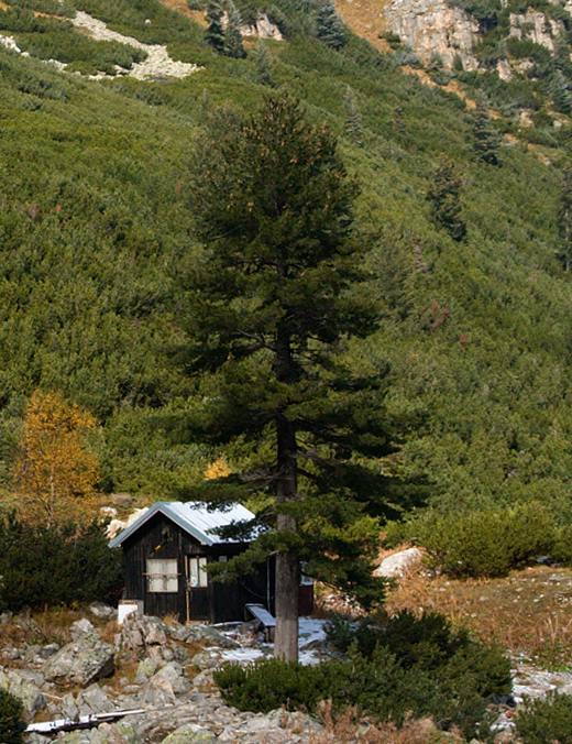 Cropped from original image to show Pinus peuce tree